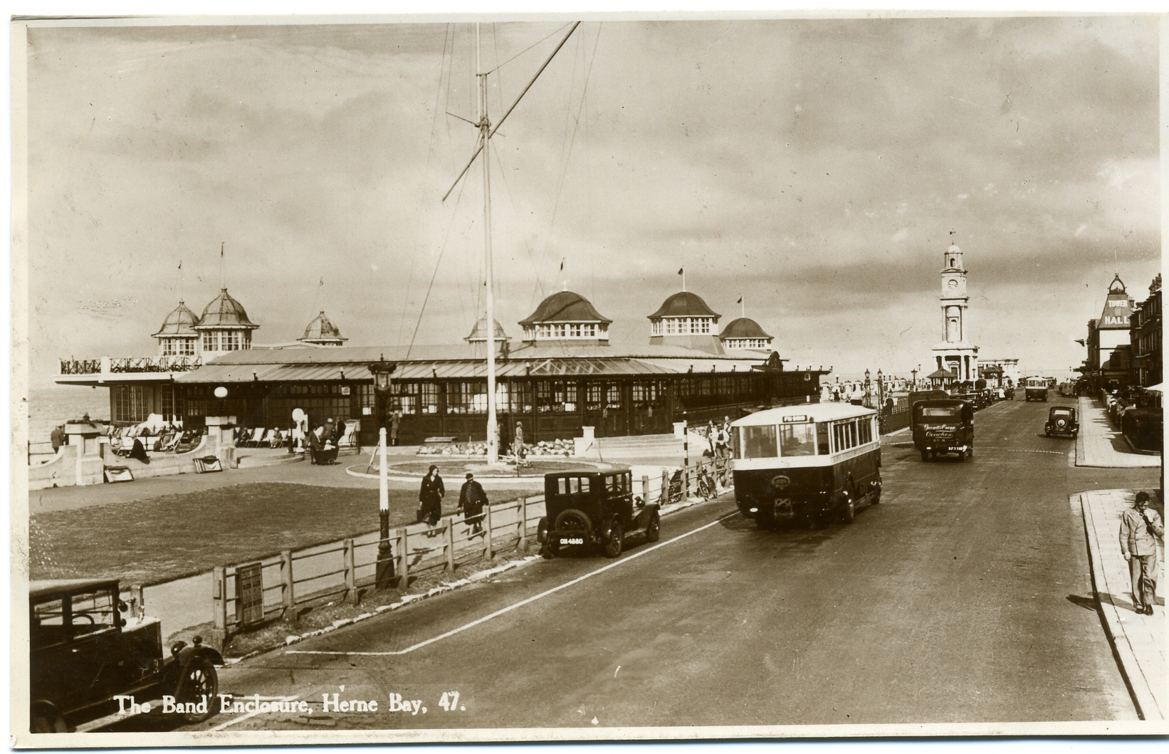 Band Enclosure, Herne Bay, postmarked 1939